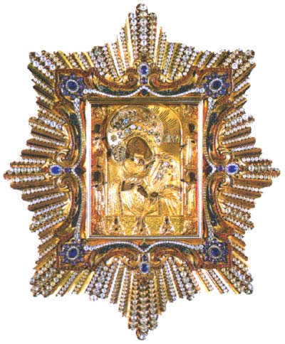 Our Lady of Pochaiv, Old Ukrainian icon (16 th century)